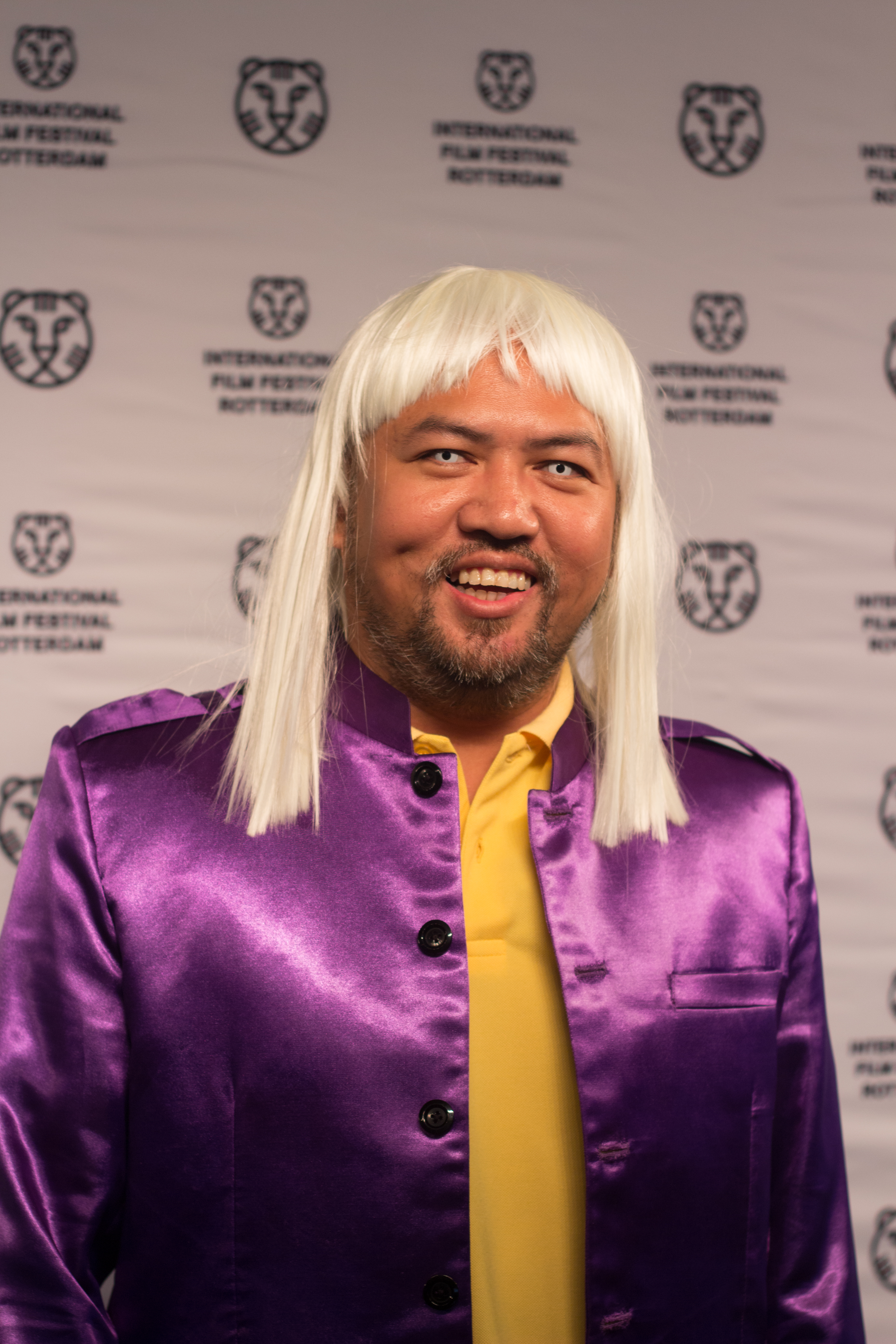 Khavn De La Cruz at the IFFR 2015